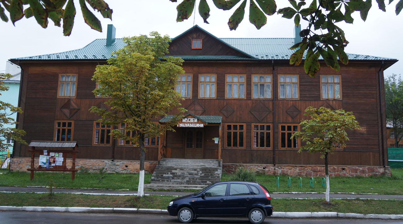 town Verhovyna AlongCarpathian Expedition 27.07-27.08.2013